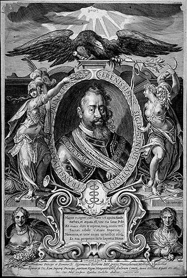 Sigismund Báthory